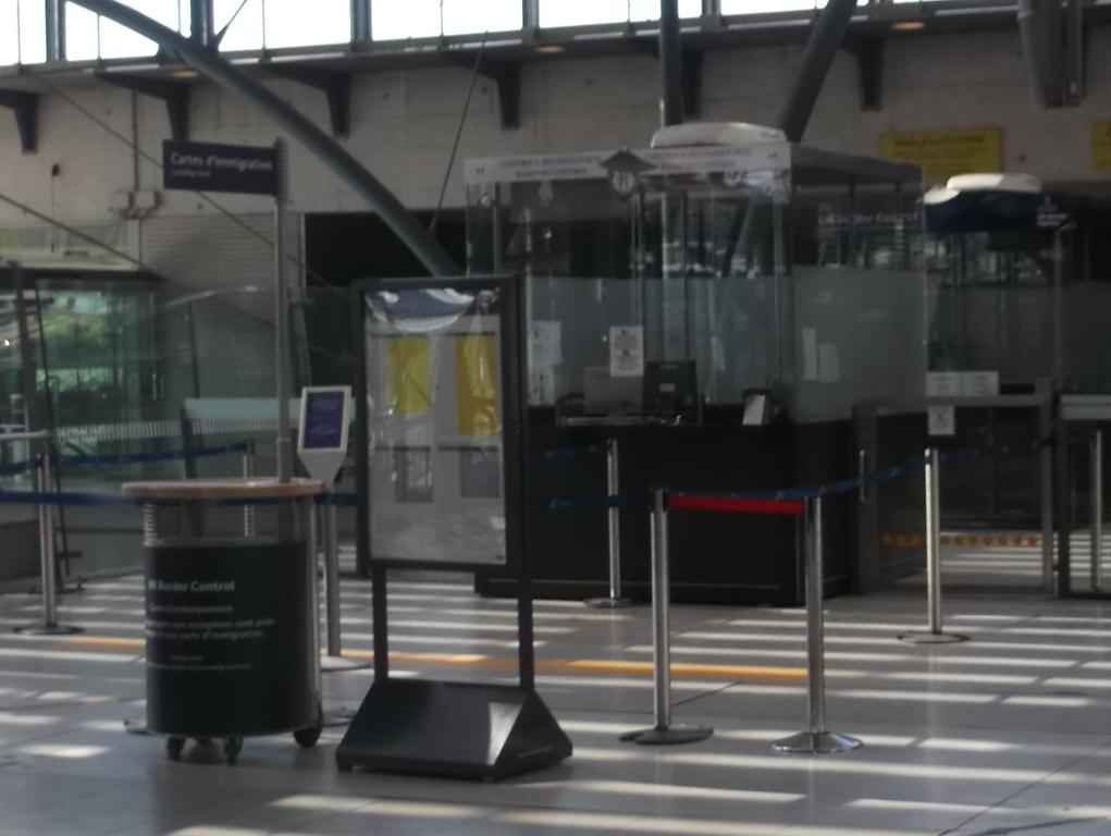 Lille Europe border check point